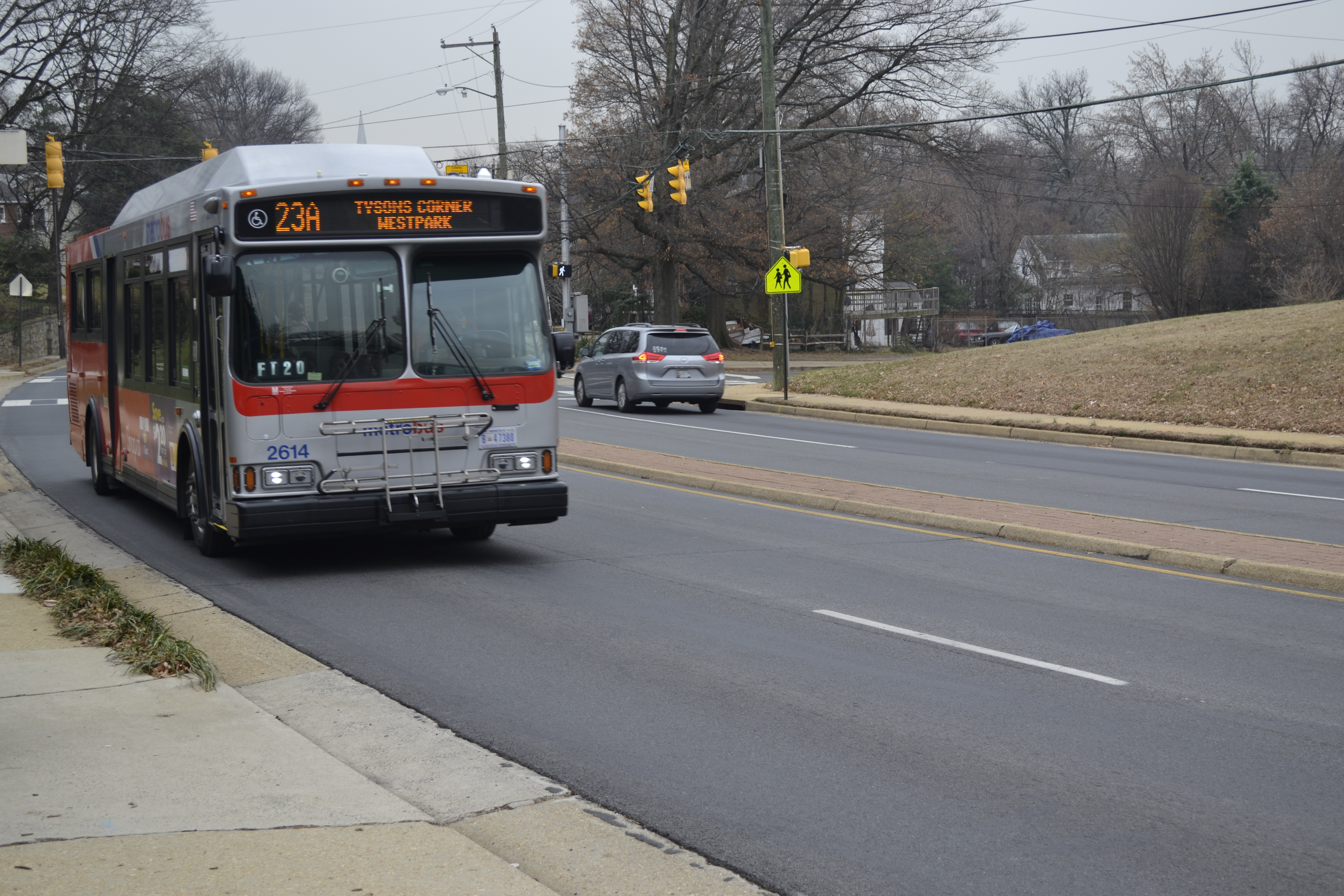 An Orion VII Metrobus operating the 23A northbound route is seen driving on North Glebe Road in Arlington County.